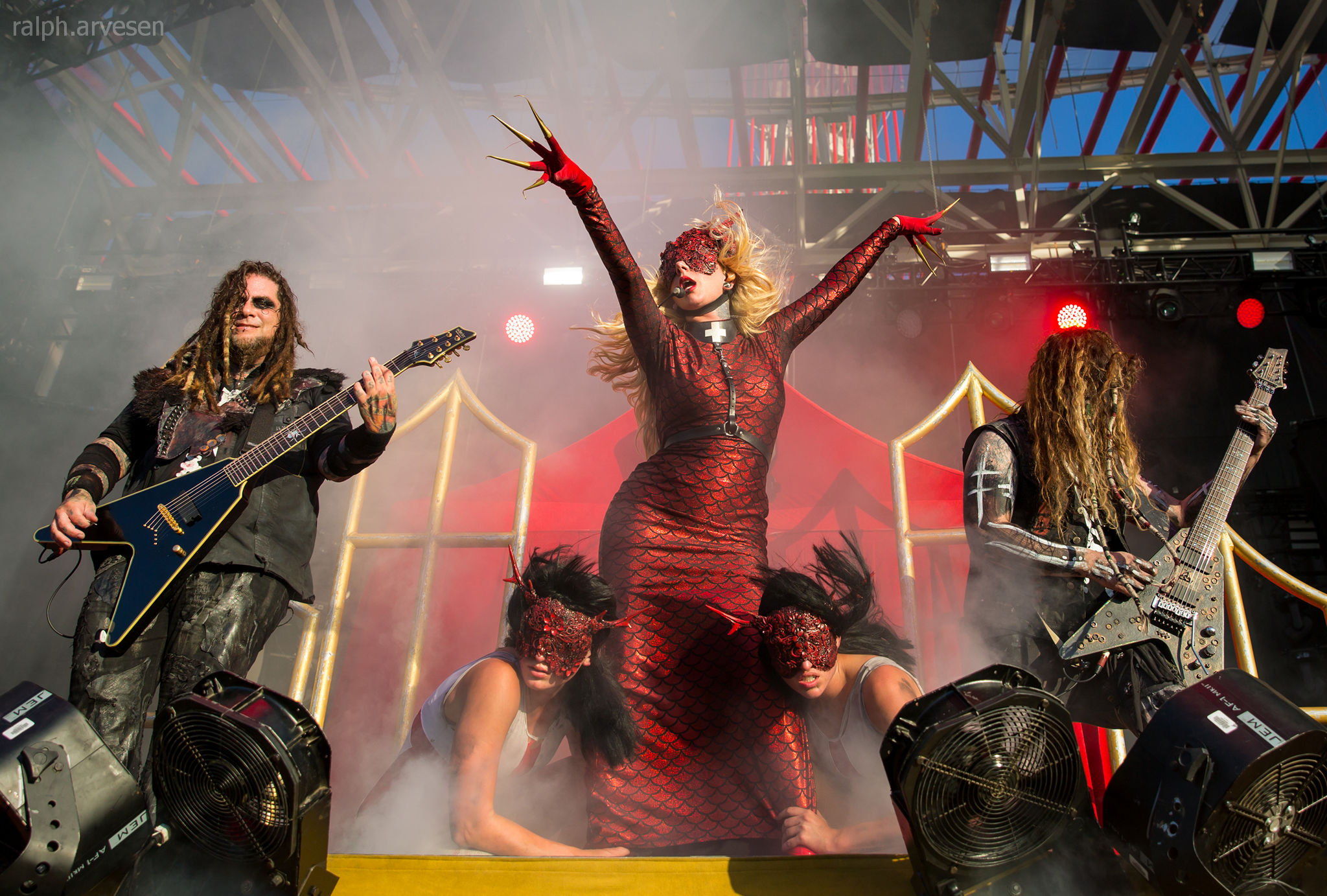 In This Moment performing in Austin, Texas (2016-08-02)